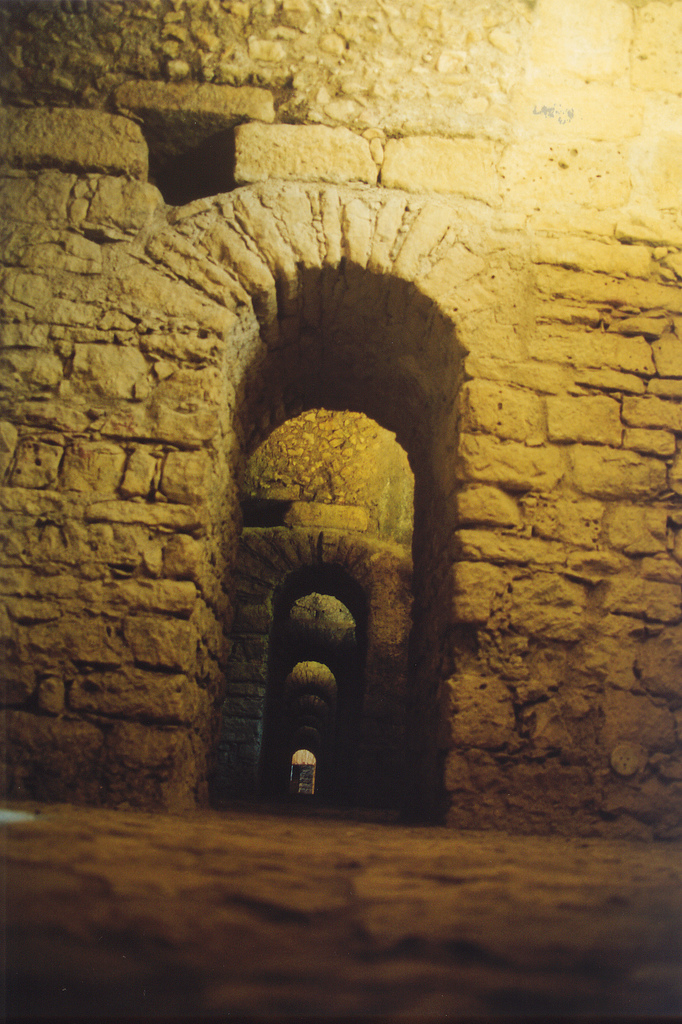 Roman galleries under the old Archbishop's Palace of Coimbra, Portugal